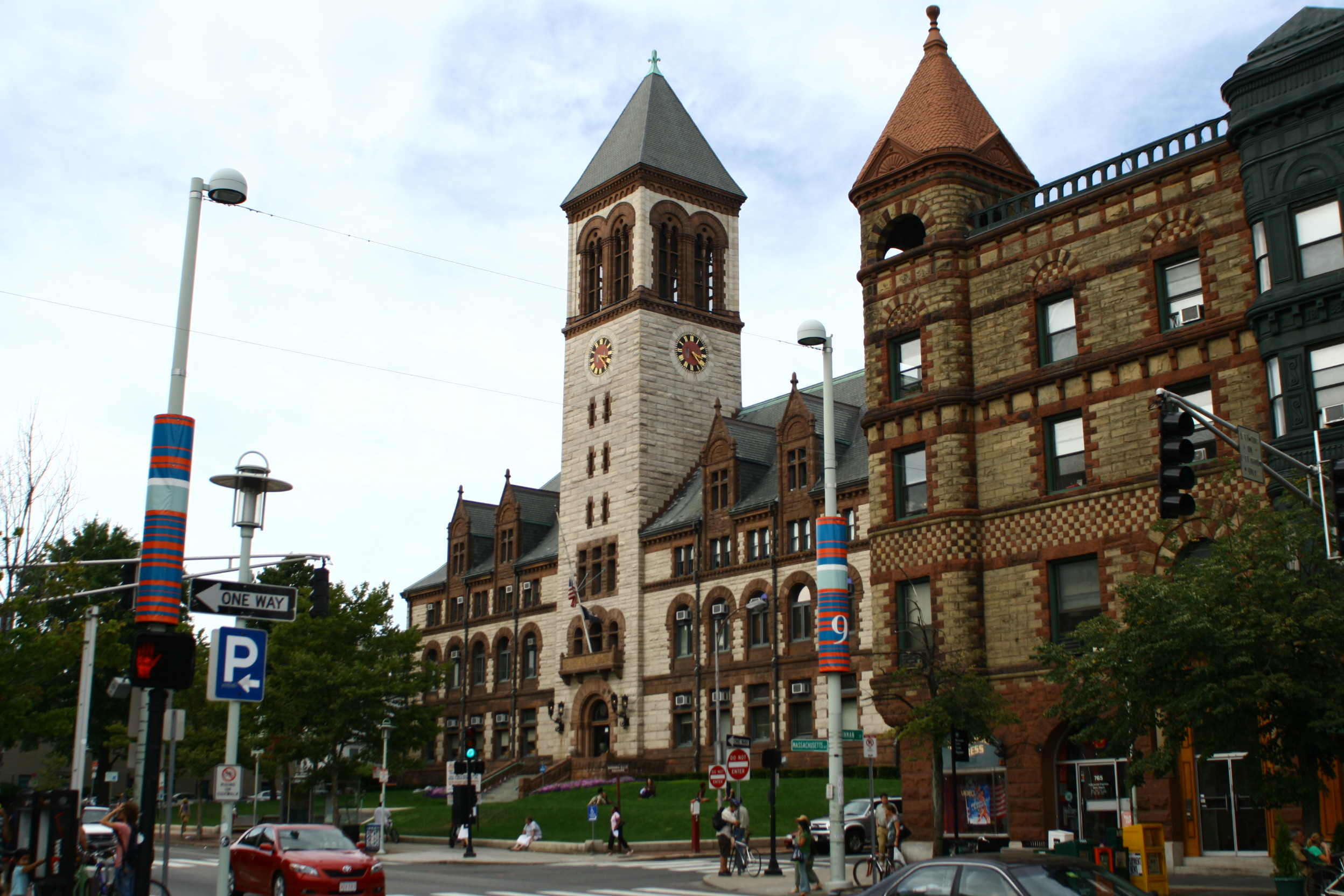 city hall of Cambridge, MA in the USA.